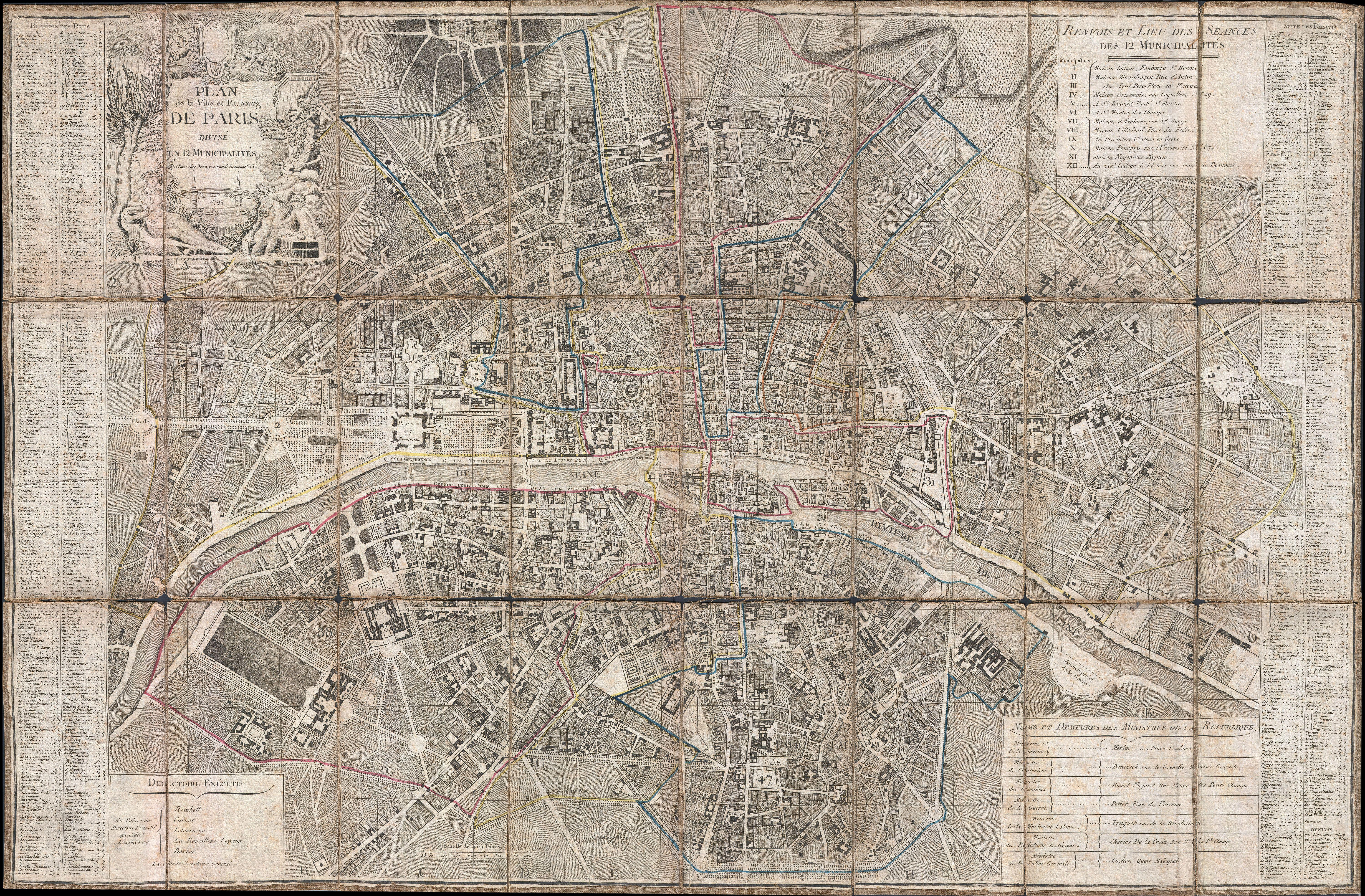 An extraordinary map of pre-Haussmann Paris and the early Faubourgs (suburbs) issued in 1797, during the final days of the Directory and the French Revolution and just two years before rise of Napoleon Bonaparte. Covers Paris on both sides of the Seine from the Champ de Mars to Le Trone, extends north as far as Montmartre and south roughly to Port Royal. Produced at the height of French dominance of the cartographic arts, this map is a masterpiece of the engraver's art. Individual buildings, fields, streets, hills, valleys, orchards, and public gardens are revealed in breathtaking detail. We can even see the incomplete state of the northern wing of the Louvre Palace. There is an elaborate street index on either side of the map. In the lower right quadrant appears a list of names of the Ministers of the Republic and members of the Directoire Exécutif. An allegorical title cartouche containing cherubs, a maiden, and a view of the a bridge (the Pont Neuf ?) appears in the upper left quadrant. This type of map, known as a pocket or case maps, is designed with the traveler in mind and while it displays beautifully unfolded, is designed to fold and fit in a vest or coat pocket. It accordance with its purpose, the map has been dissected and mounted on linen in 24 sections. This system was devised in the 18th century to protect folding maps against damage caused by repeated folding and unfolding. The linen backing absorbs the stress of folding and can easily be mended or replaced, thus preserving the integrity of the actual paper document. Folded this map fits into a beautiful brown tooled leather slip case, which is included.